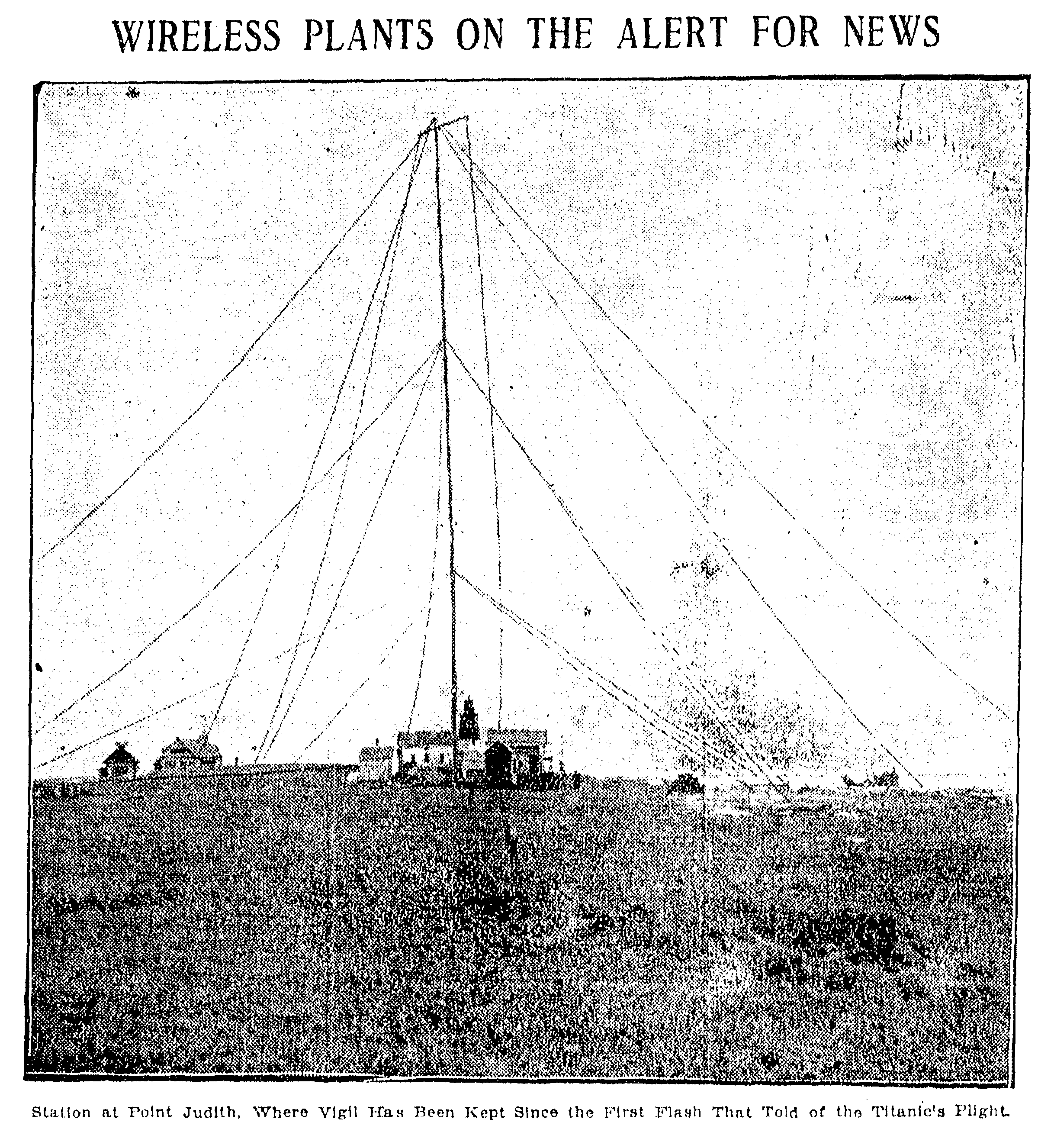 The Massie Wireless Station at Point Judith, Rhode Island, 1912. Caption: "Wireless Plants on the Alert for News" "Station at Point Judith. Where vigil has been kept since the first flash that told of the Titanic's plight."